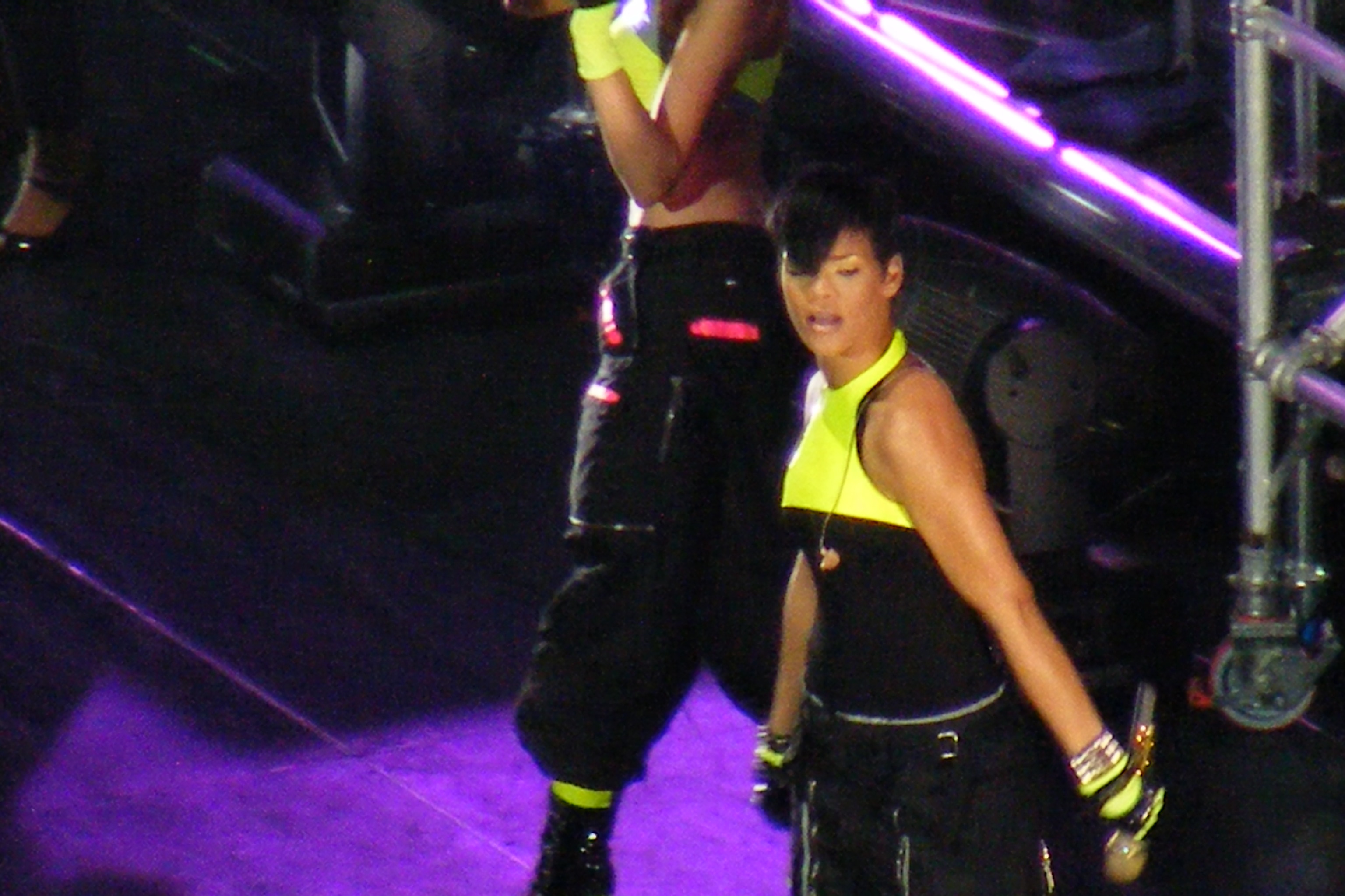 Rihanna in the Glow in the Dark Tour